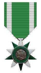 Order of the Federal Republic (Nigeria) - cropped